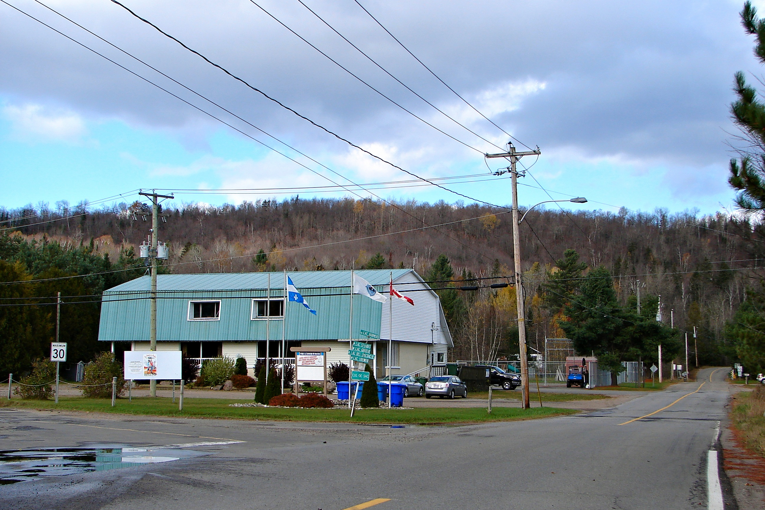 Saint-Michel-de-Wentworth (Wentworth-Nord), Quebec, Canada